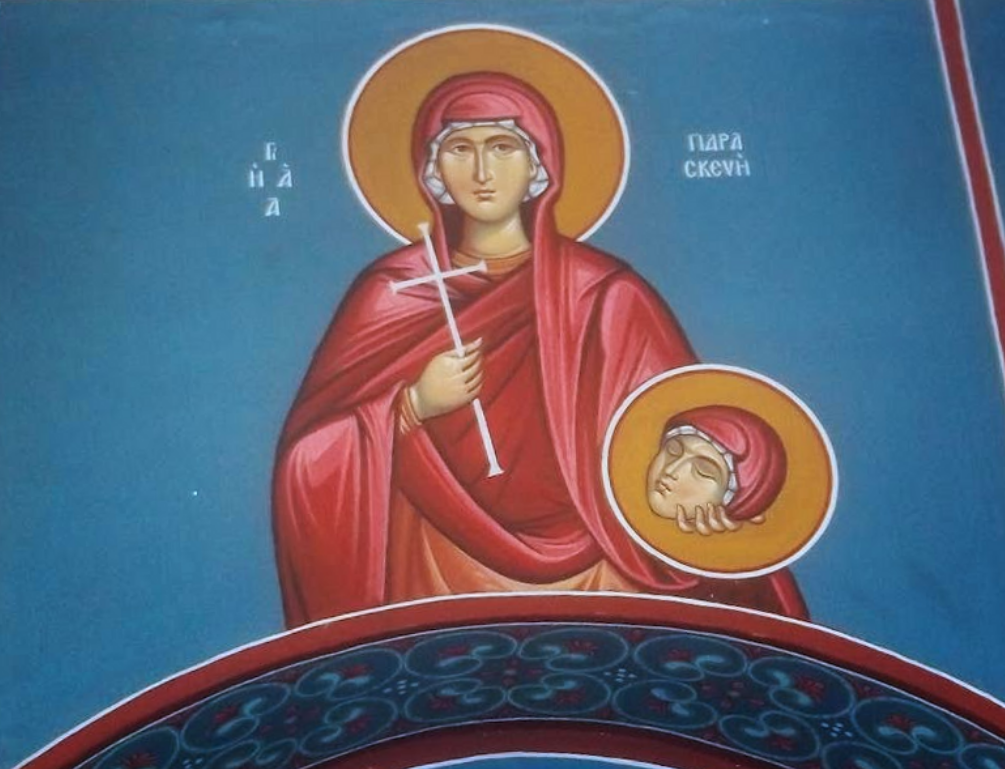 Paraskevi of Rome